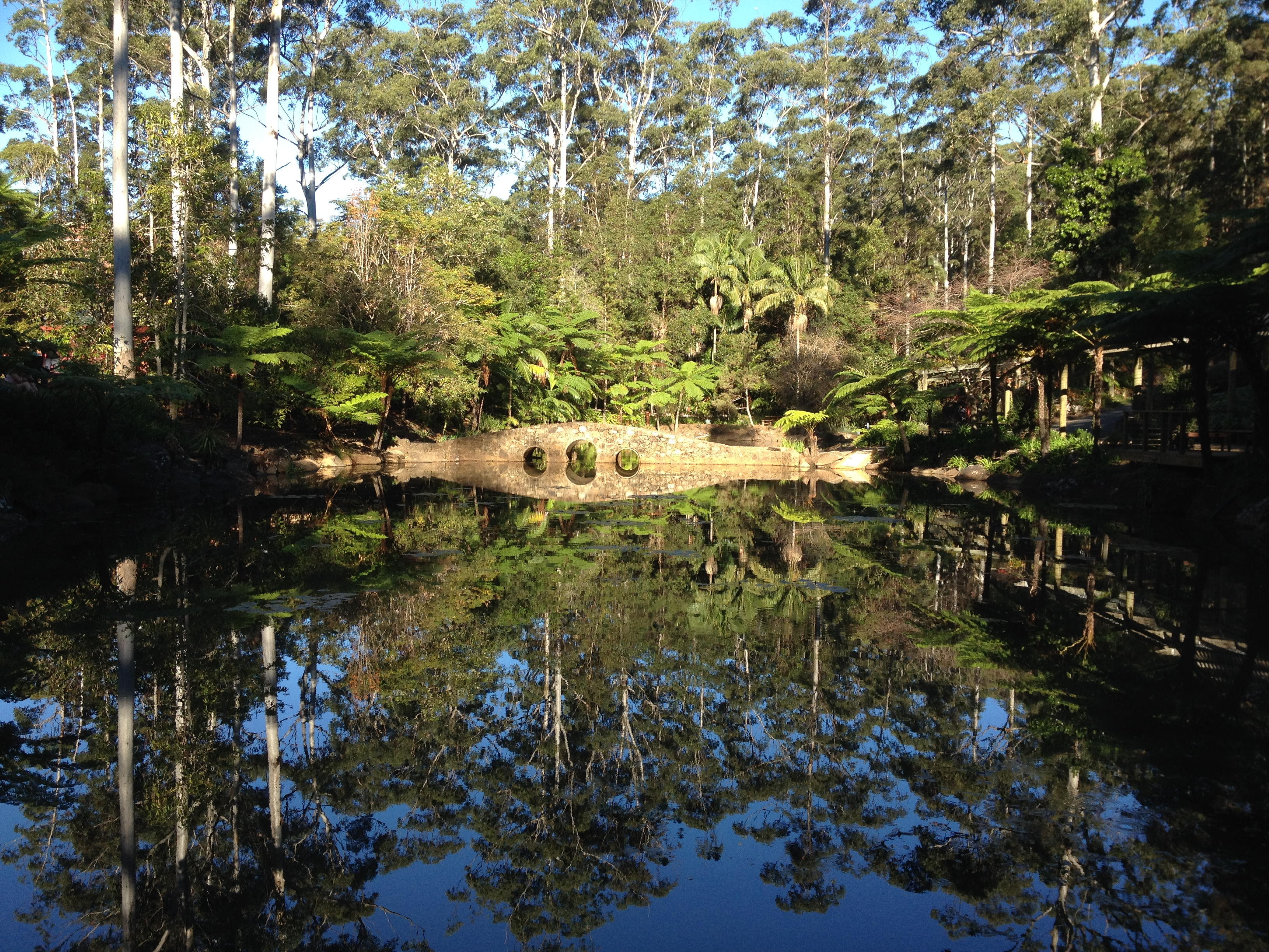 Tamborine Mountain Botanic Gardens, Tamborine Mountain, Queensland, May 2014